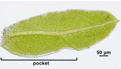 f.limbatus